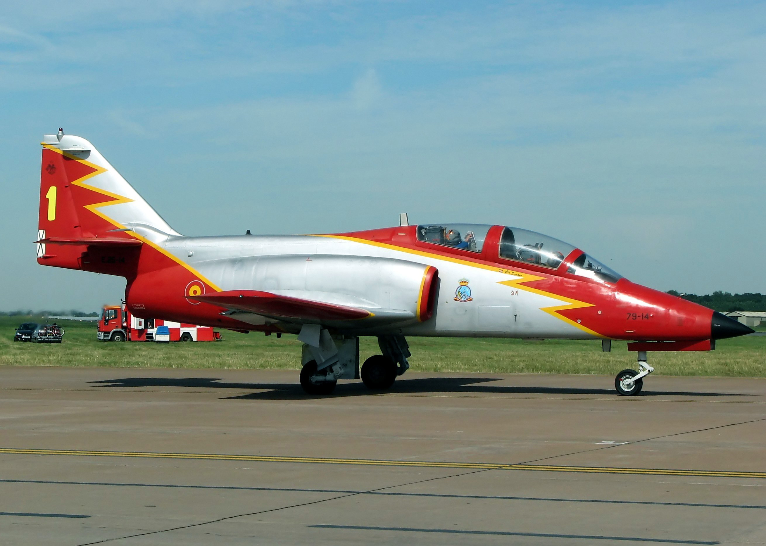 Casa C-101 Aviojet trainer of the Spanish display team Patrulla Aguila, taxiing for takeoff at the Royal International Air Tattoo, Fairford, Gloucestershire, England. Photographed by Adrian Pingstone on July 17th 2006 and released to the public domain.